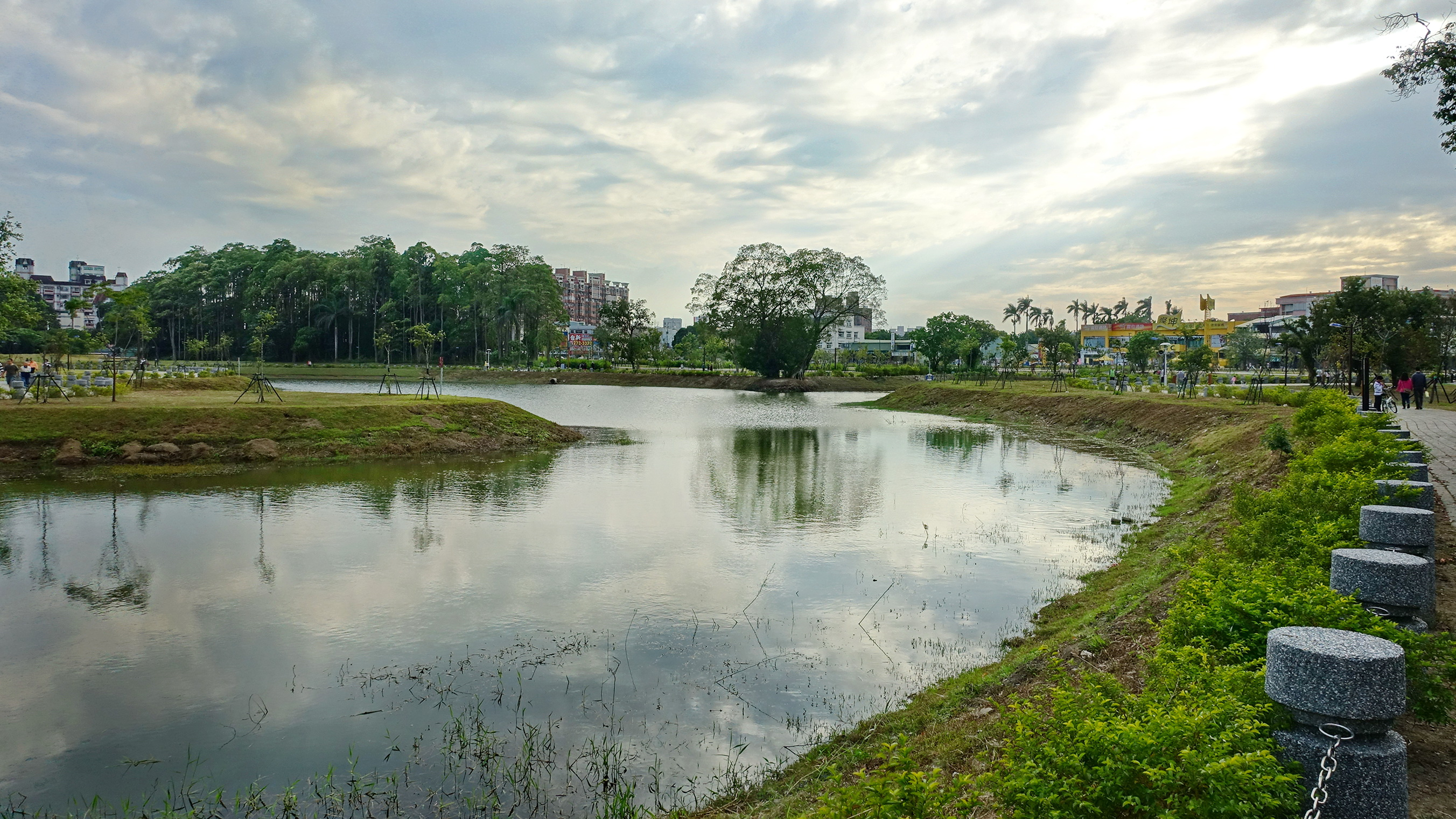 Chiayi City Forestry Culture Public Park, Taiwan.